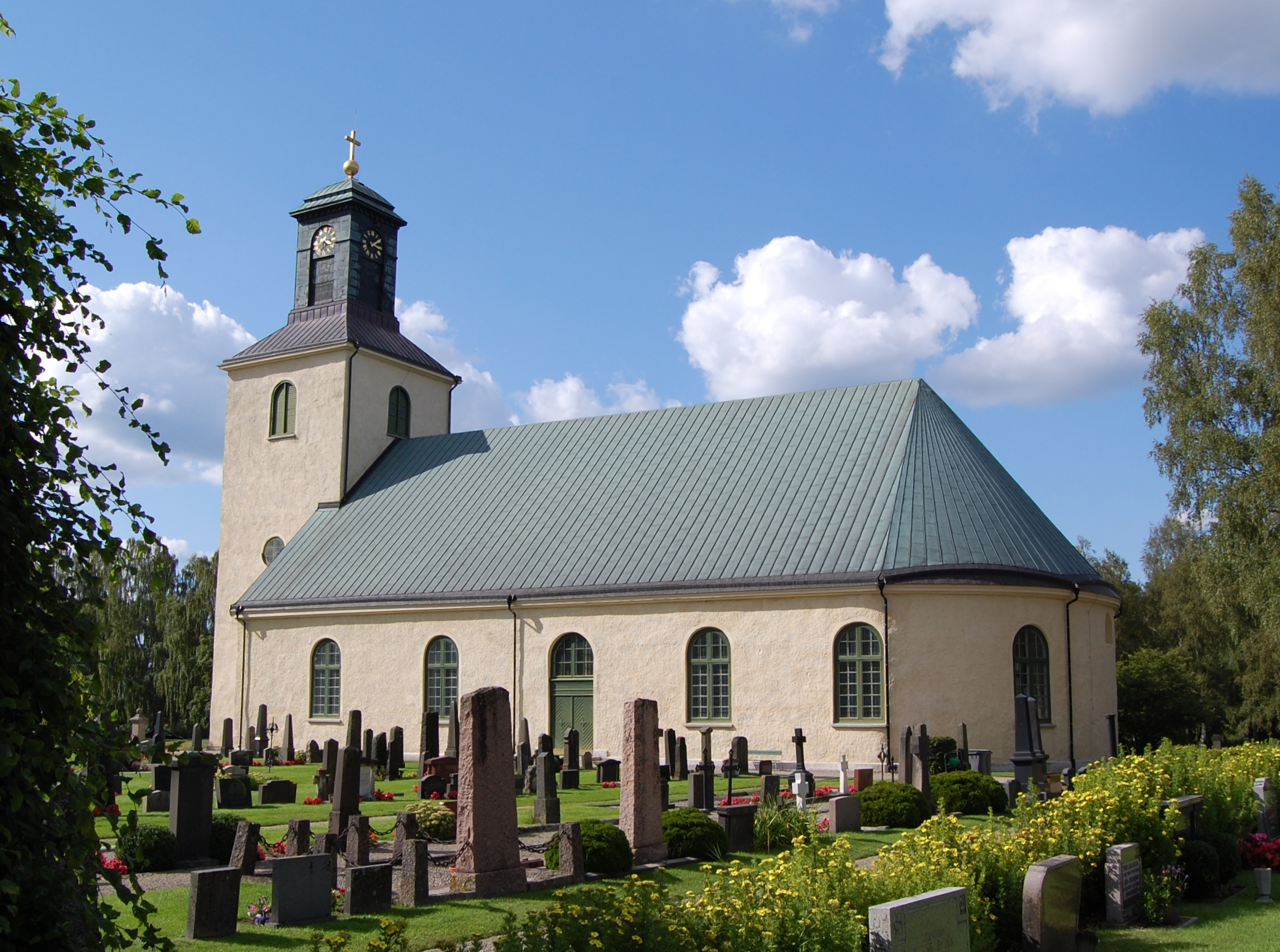 Almundsryds Church